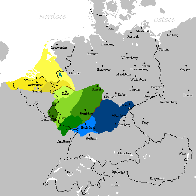 Franconian regions. Ripuarian language Moselle Franconian Luxemburgish Hessian Palatine German+Lorraine Franconian South Franconian East Franconian